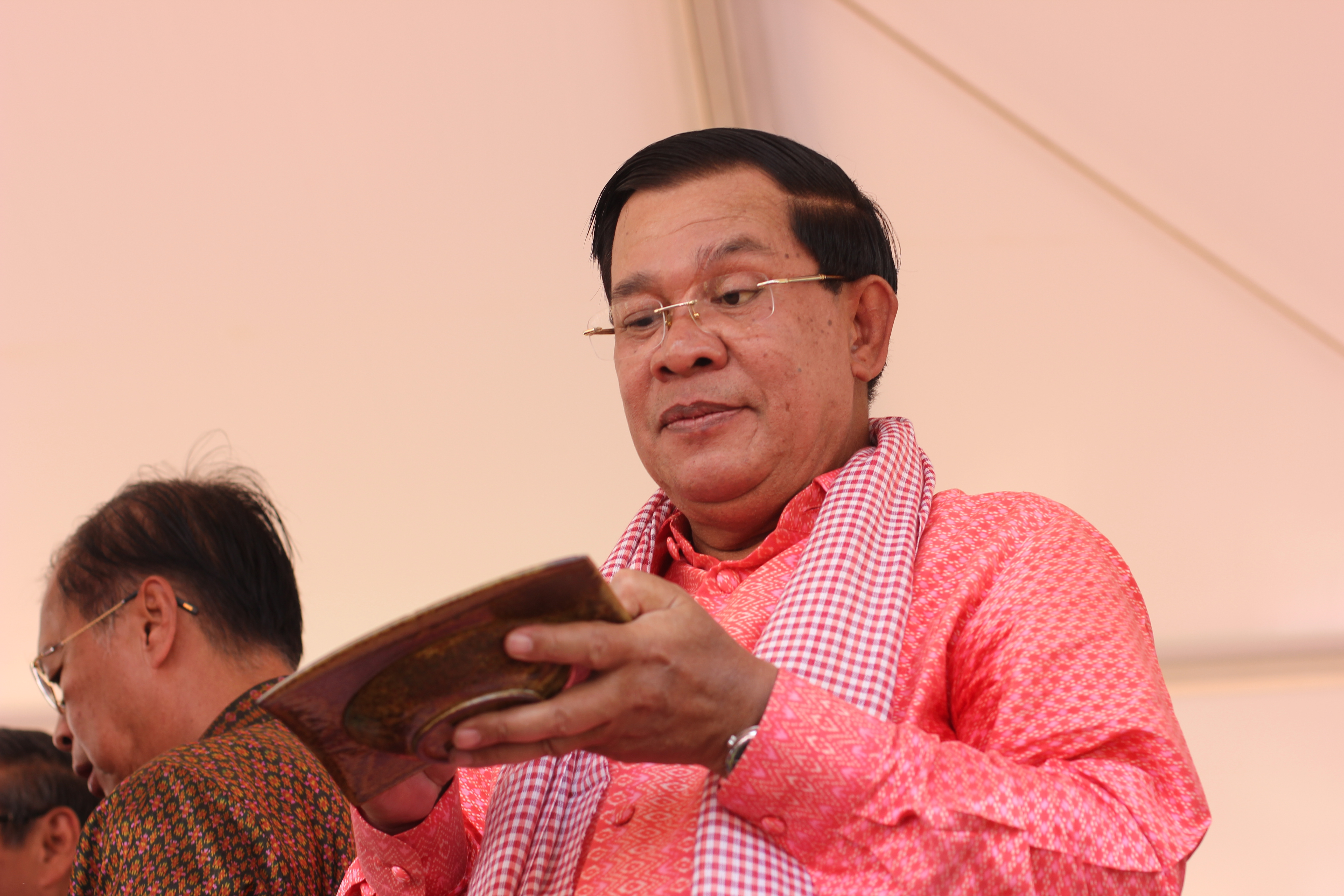 Prime Minister of Cambodia, Samdech Hun Sen met with Sam Rainsy in 2015 to resolve their differences.